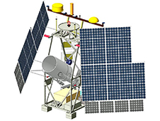 The GUSTO mission is a high-altitude balloon mission by NASA that will carry this gondola and telescope to an altitude of 36 km in order to measure specific infrared emissions from the interstellar medium. Launch is scheduled for December 2021 from Antarctica.